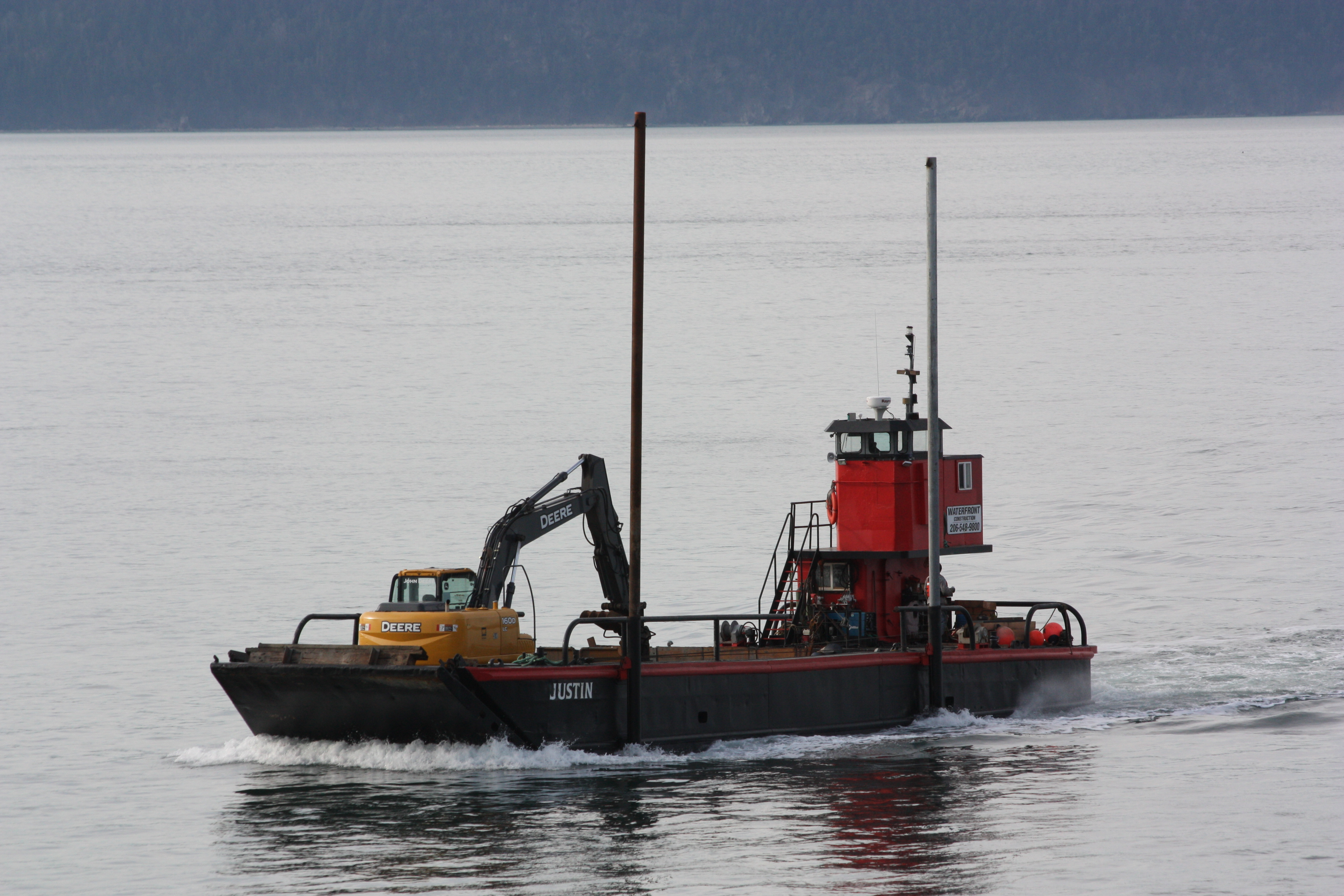 Justin, a converted LCM-8 landing craft vessel, 73 feet long, Waterfront Construction, Inc., sunk 2011-10-14 near West Seattle, raised 2011-10-15[1]; Excavator, John Deere 160D LC on Rosario Strait Viewpoint location: Loop Road, Washington Park (Anacortes) Viewpoint elevation: 13 meter (44 ft) Location source: Garmin GPSmap 60CSx Location Datum: WGS84